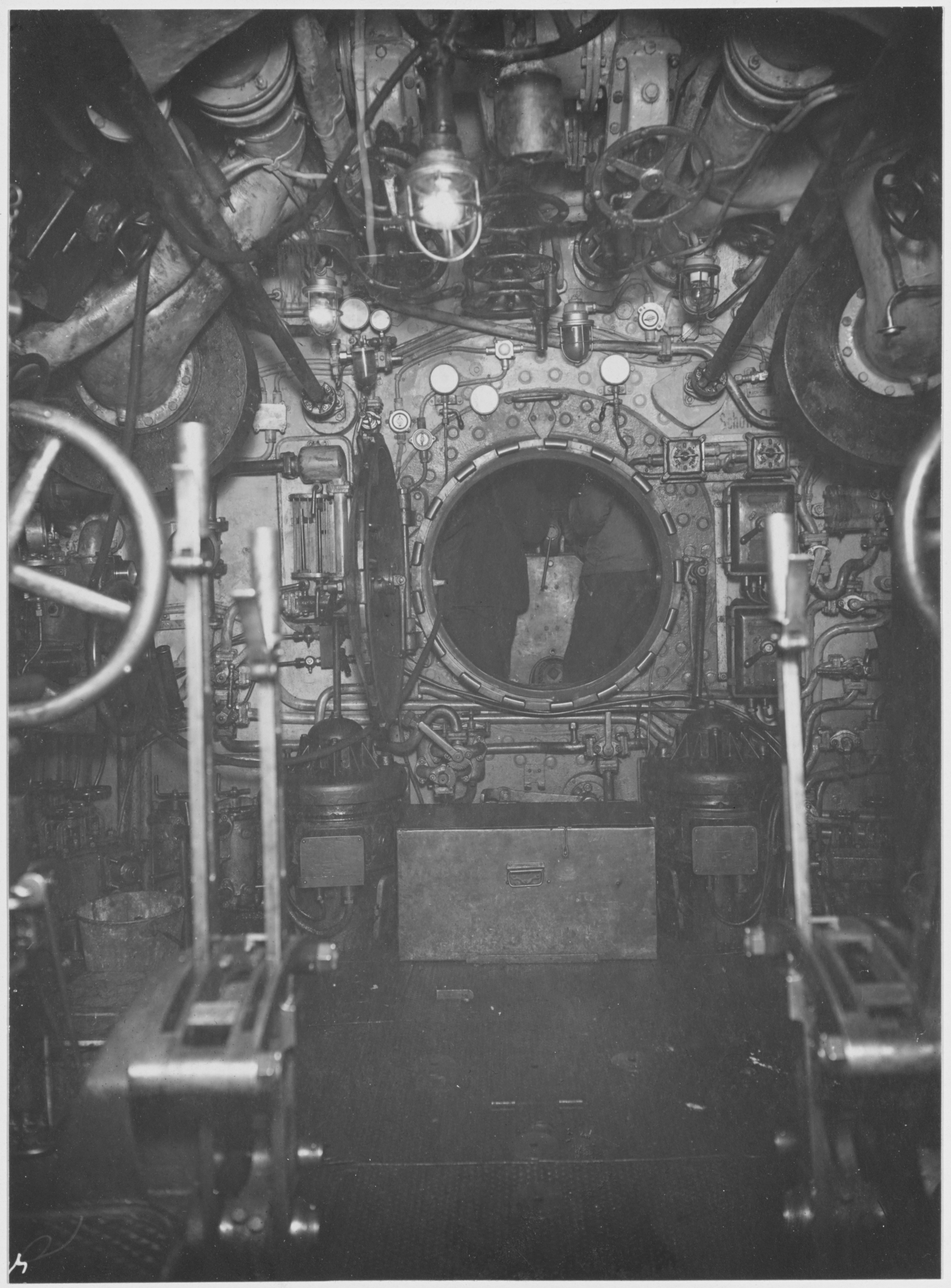 Title: German Submarine UC-58 Caption: Interior of a German submarine.